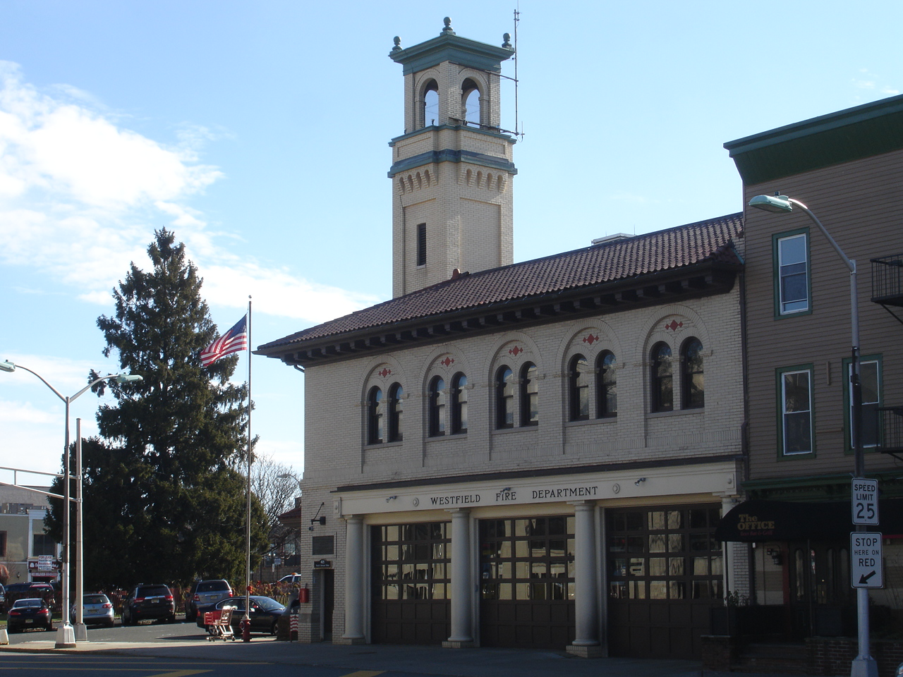 I took this photo of the Westfield Fire Headquarters myself on January 28, 2012.